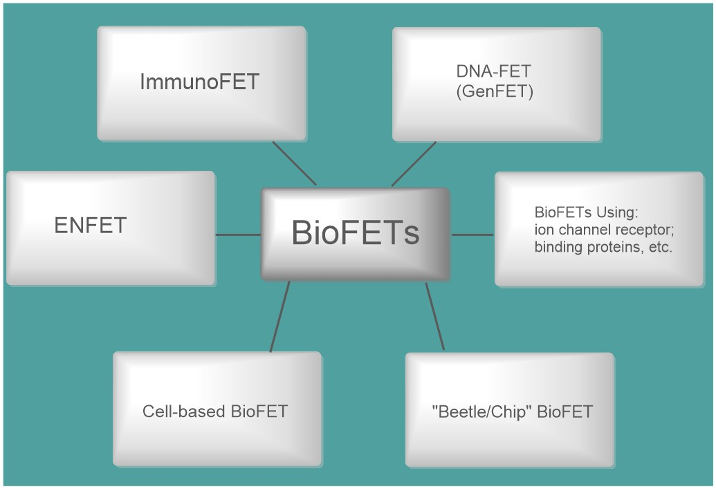 Classification of BioFET